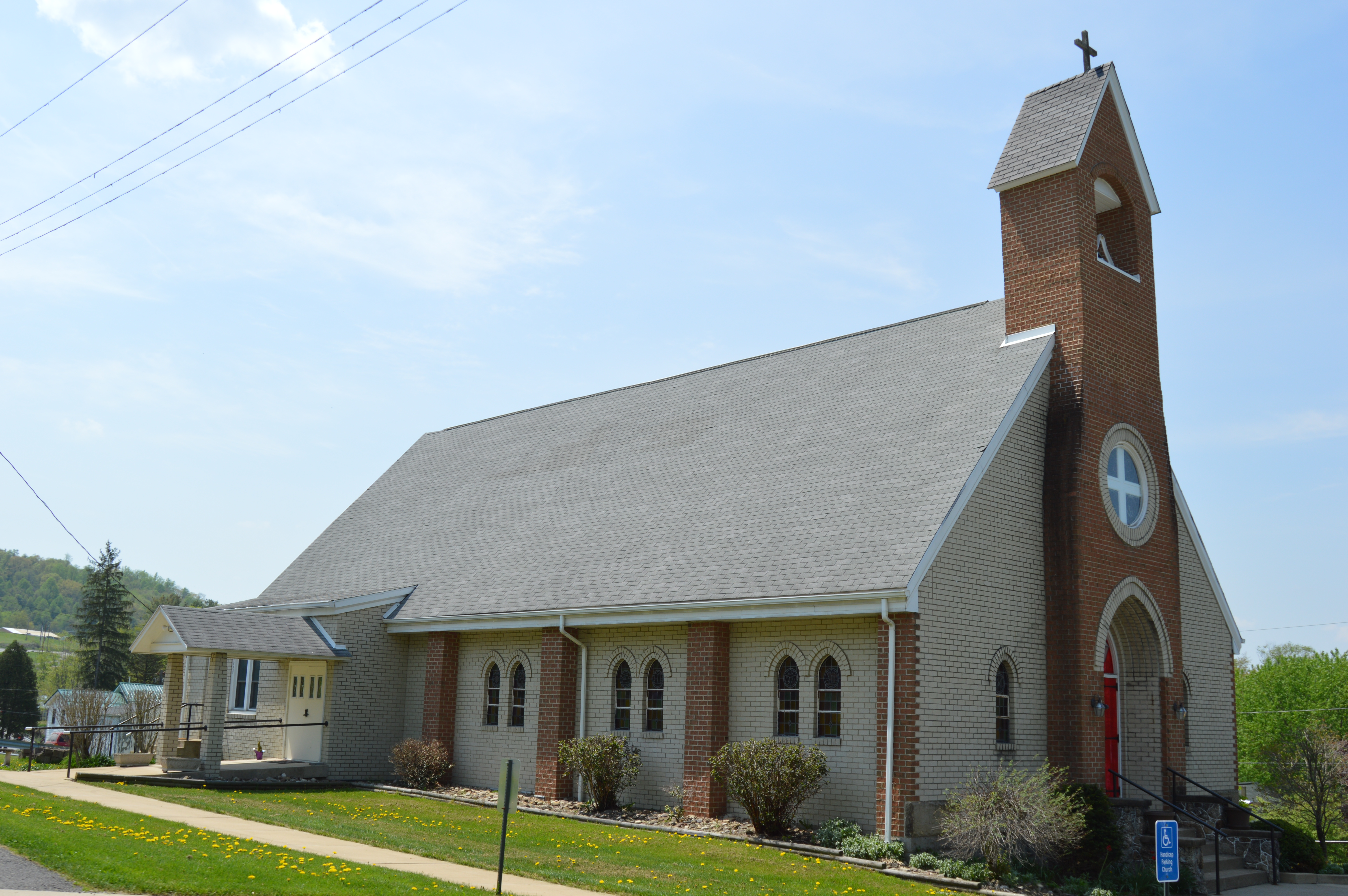 Southeastern side and front of Salem Lutheran Church, located at 26 Clarion Street in Smicksburg, Pennsylvania, United States. It was built in 1889, although it has seemingly been modified since then.